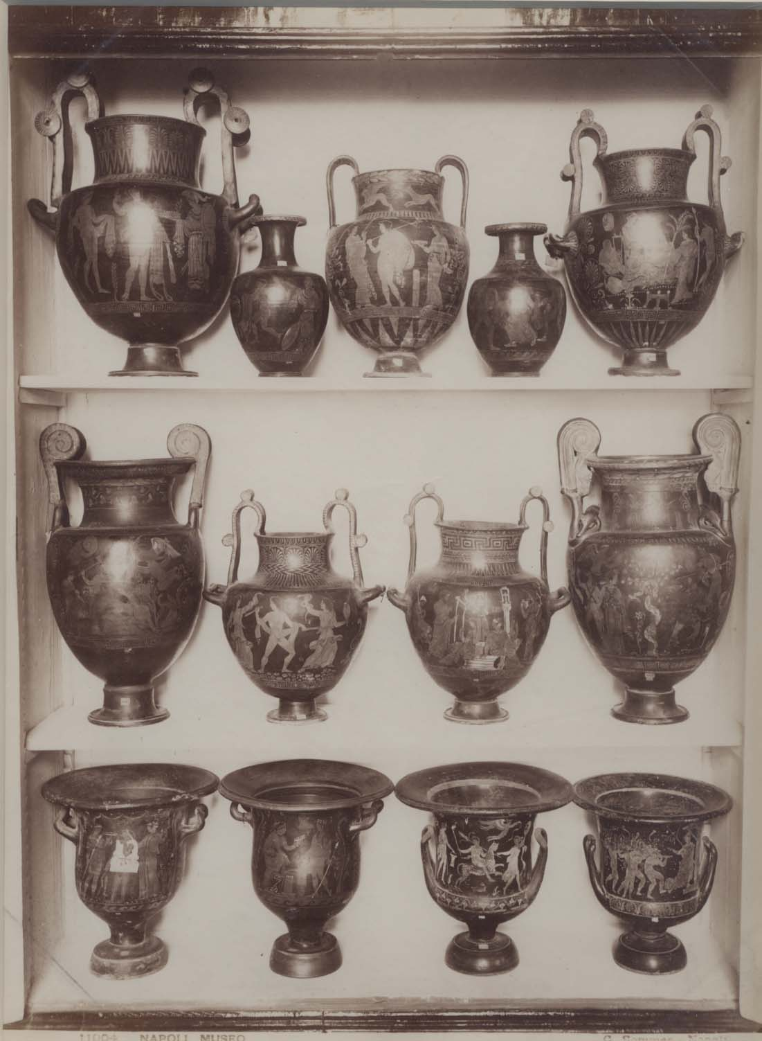 Giorgio Sommer (1834-1914), Naples National Archaeological Museum. Catalogue n° 11004.